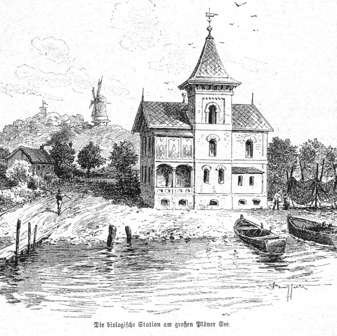 Biological station Großer Plönersee Germany